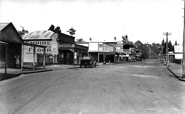 Blackwood Road, Greenbushes Western Australia